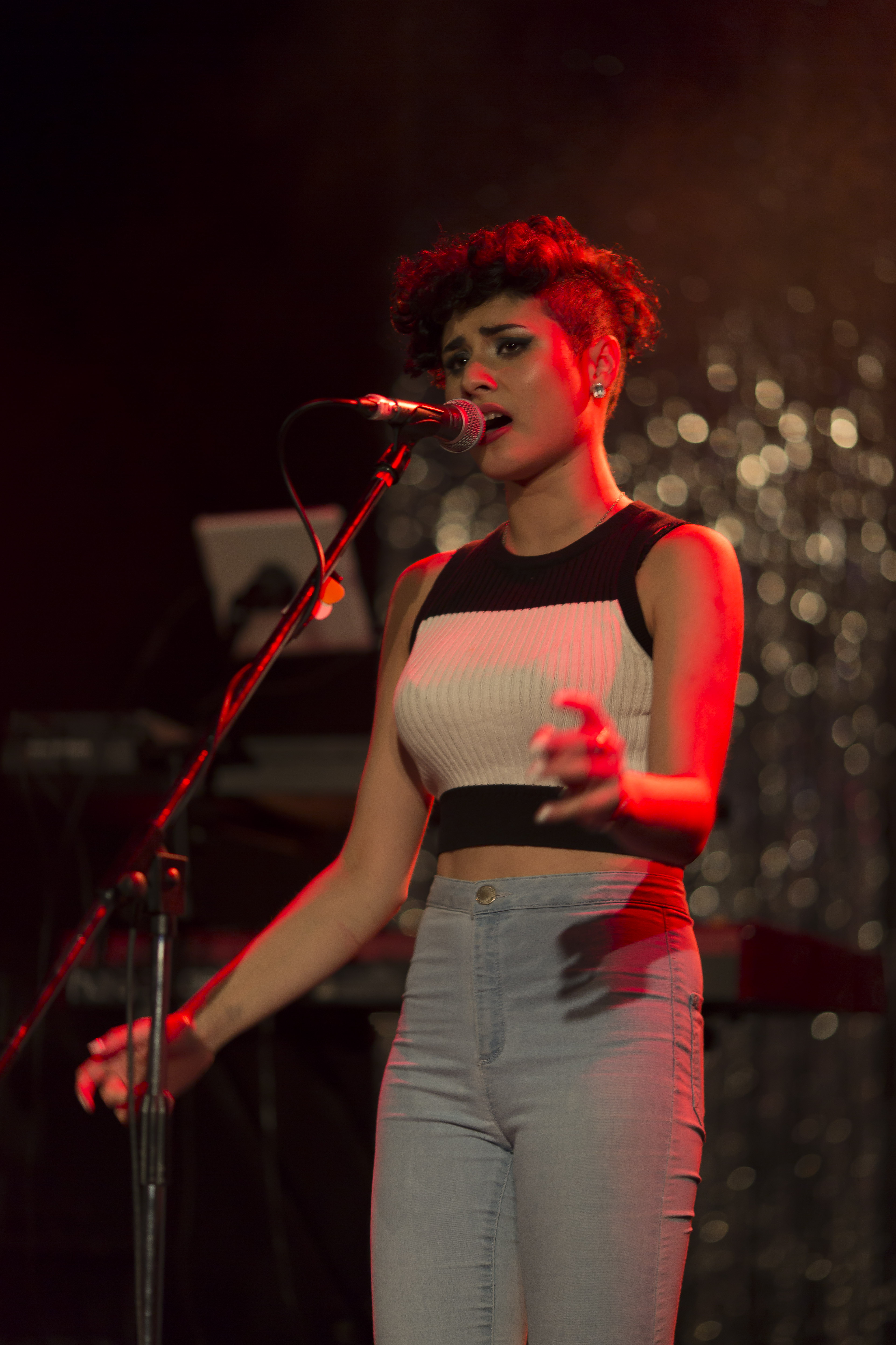 February 21, 2015